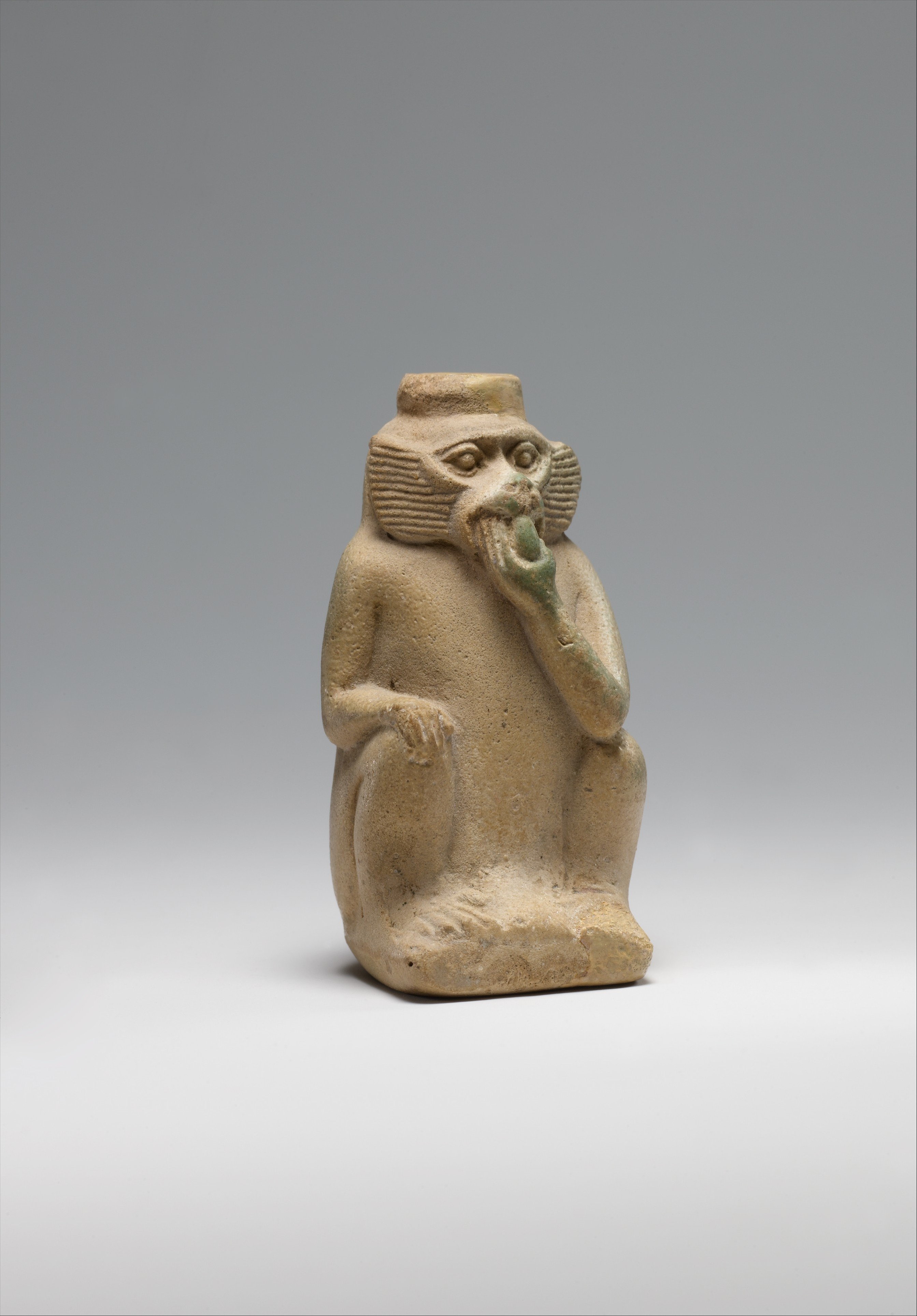 Vase, perfume, monkey